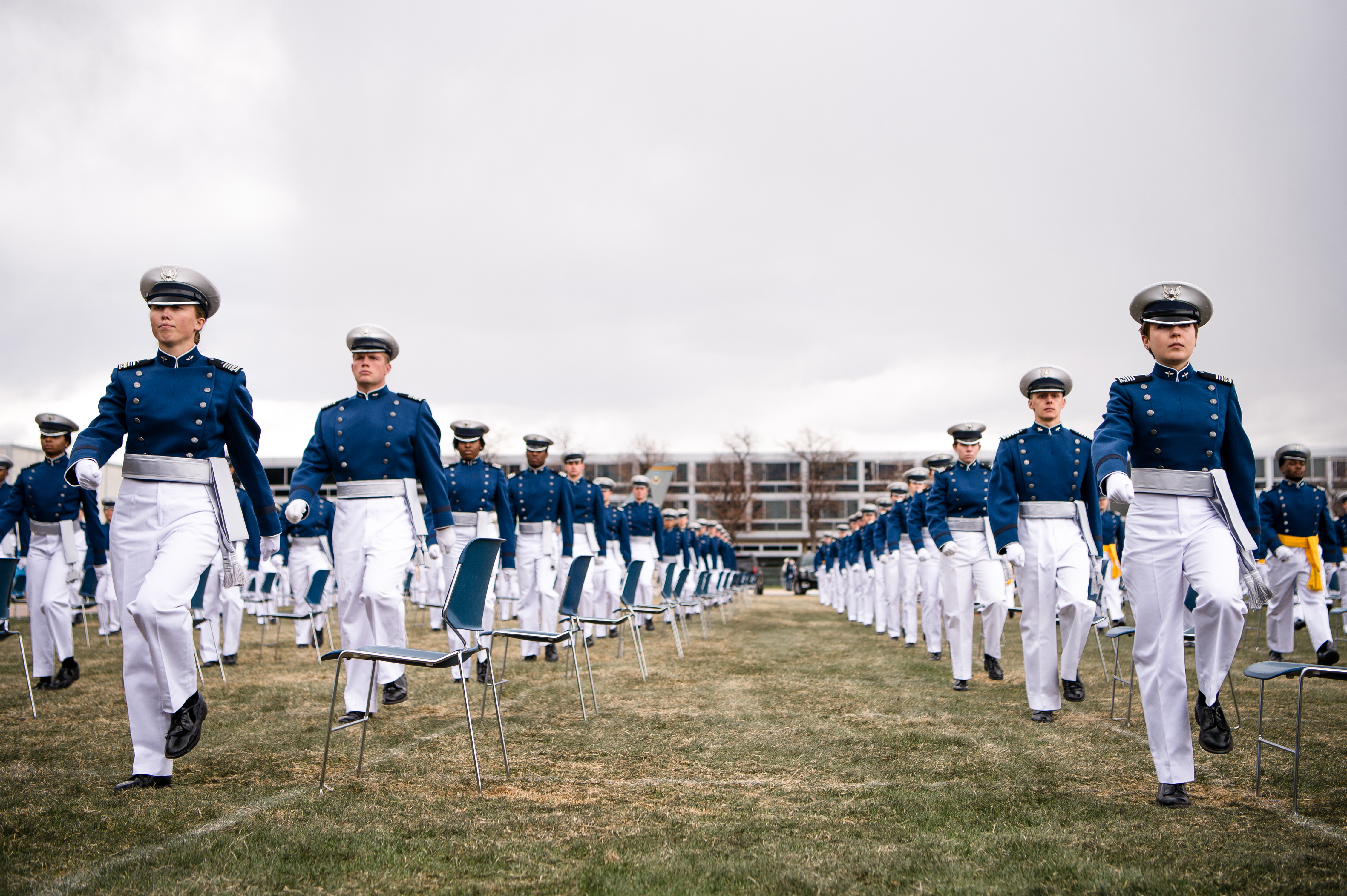 U.S. Air Force Academy -- Cadets going onto the Space Force march on to the terrazzo to start the U.S. Air Force Academy's Class of 2020 Graduation Ceremony at the Air Force Academy in Colorado Springs, Colo., April 18, 2020. Nine-hundred-sixty-seven cadets crossed the stage to become the Air Force/Space Force’s newest second lieutenants. (U.S. Air Force photo/Trang Le)